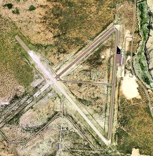 USGS digital orthophoto of Winkler County Airport in Texas